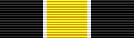 I made this image with Photoshop. DOS Secretary's Award Ribbon